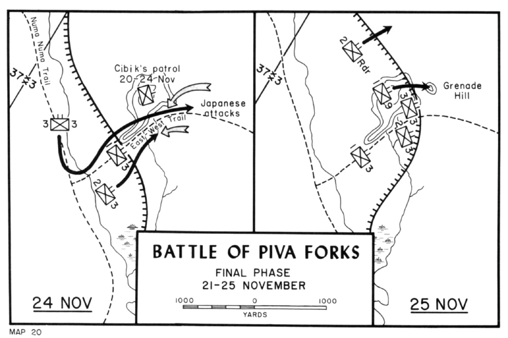 Map depicting the final phase of the Battle of Piva Forks (21–25 November 1943), during the Bougainville campaing in World War II.